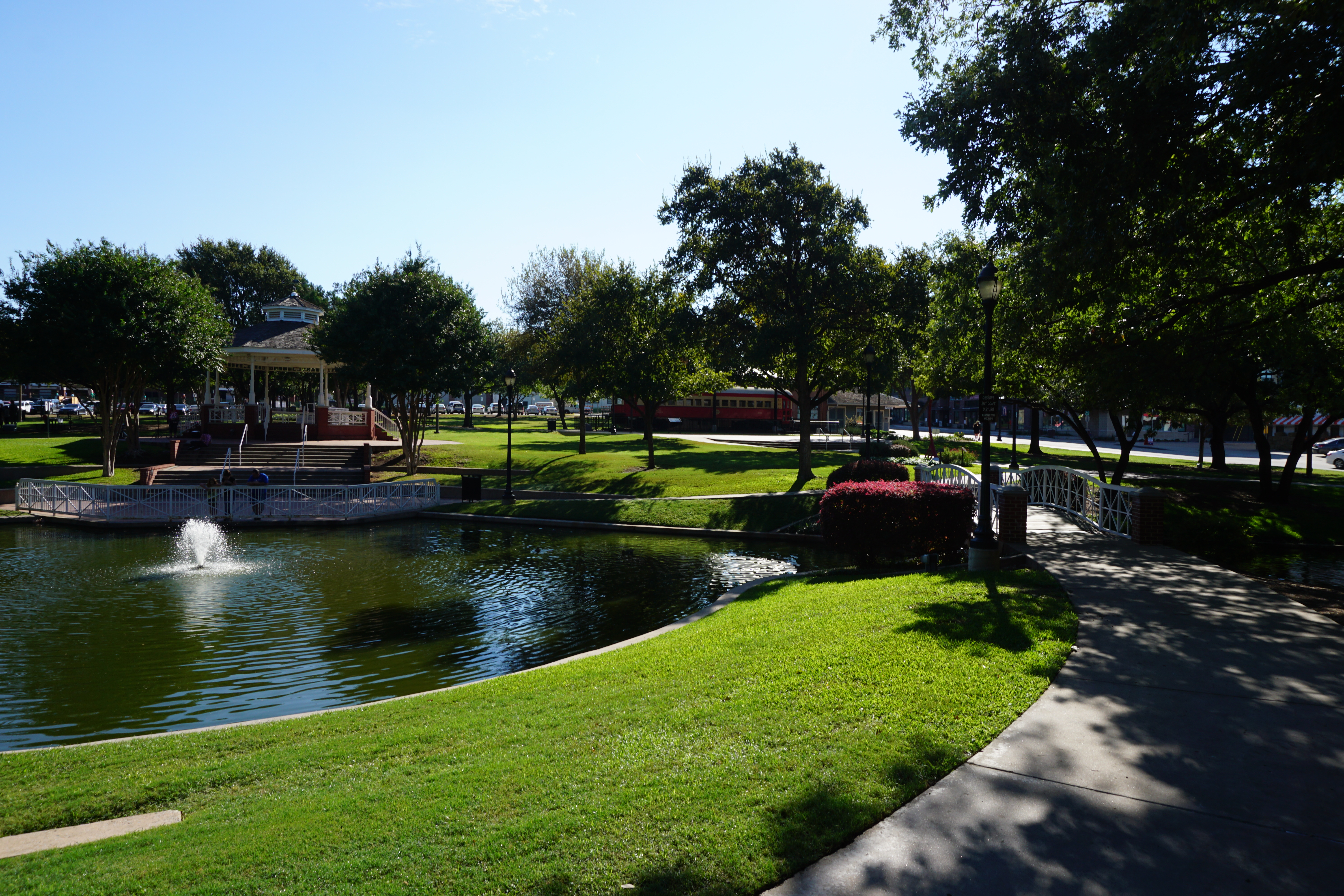 Haggard Park in Plano, Texas (United States).